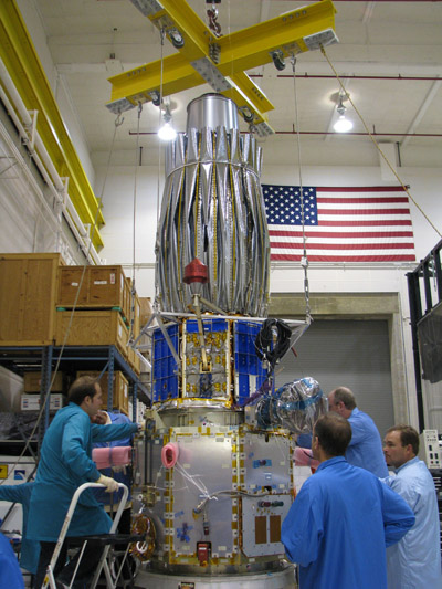 TacSat-4 with stowed antenna after completion of final assembly at the Naval Research Lab